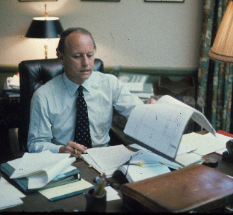 Donald Frederickson, Director of NIH from 1975-1981. Photo by Gerald V. (Jerry) Hecht